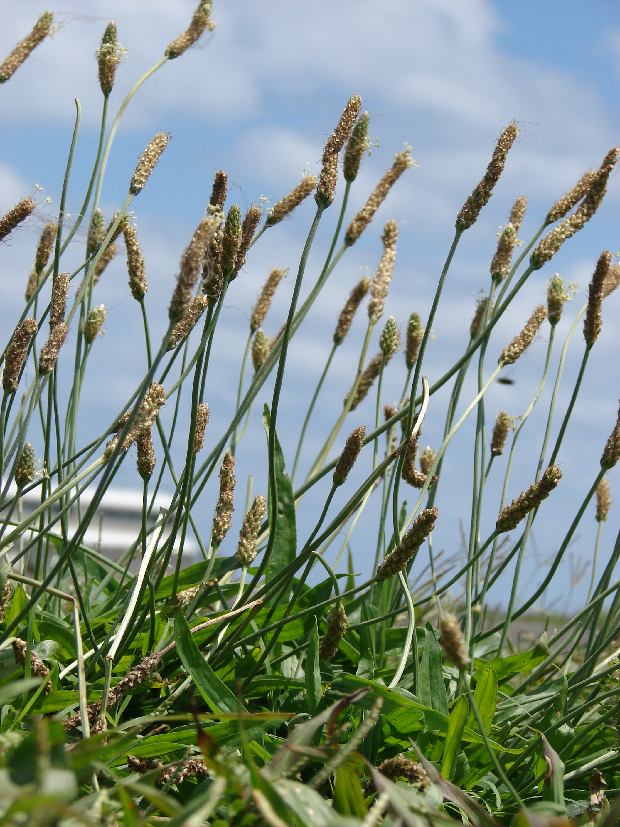 Plantago lanceolata (seedheads). Location: Midway Atoll, Hangar Sand Island